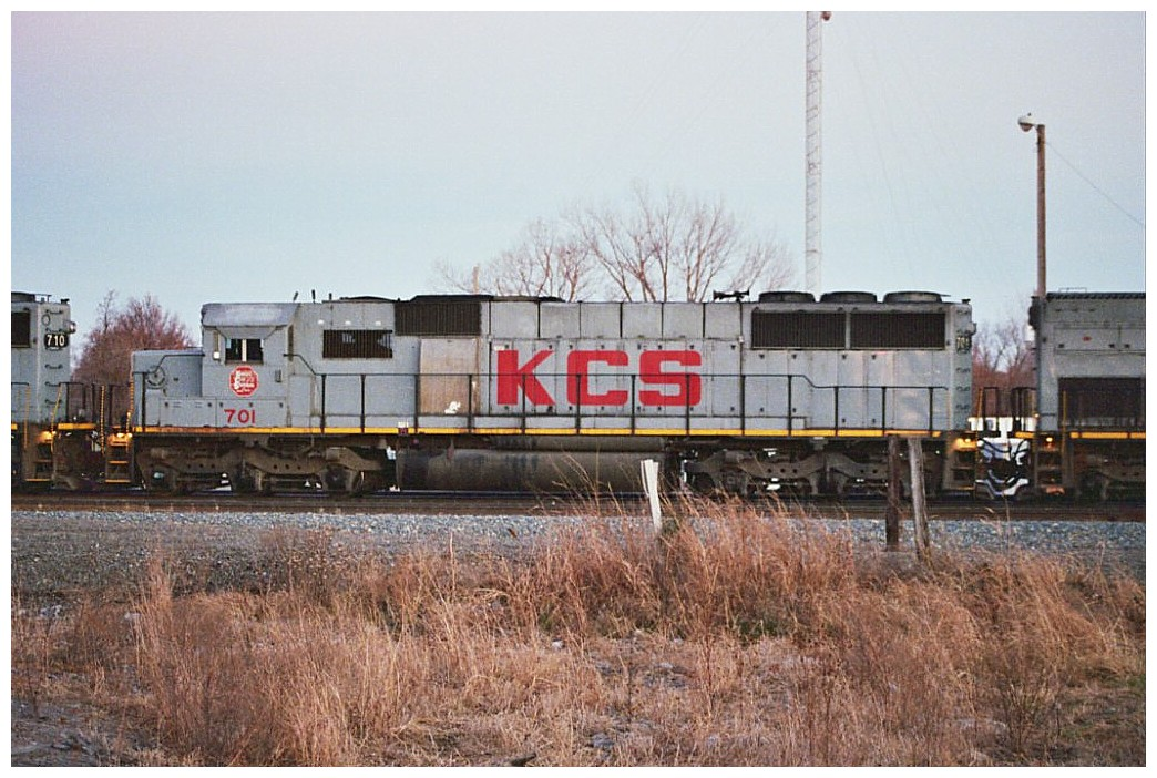 Kansas City Southern Railway #701, EMD SD40X